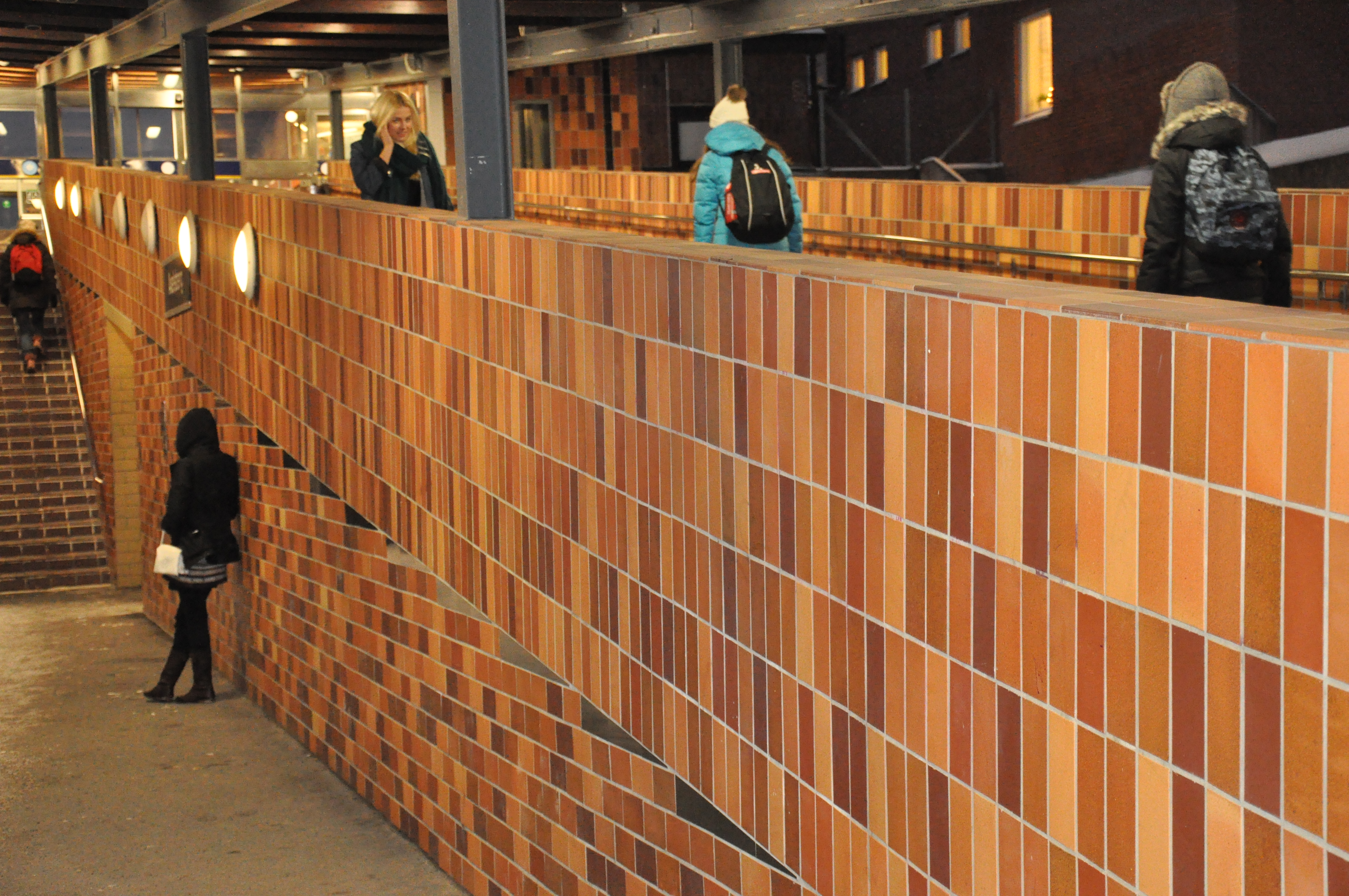 Gösta Wessel: konstnärlig utsmyckning med klinkerklädda väggar på Axelsbergs tunnelbanestation, 1999